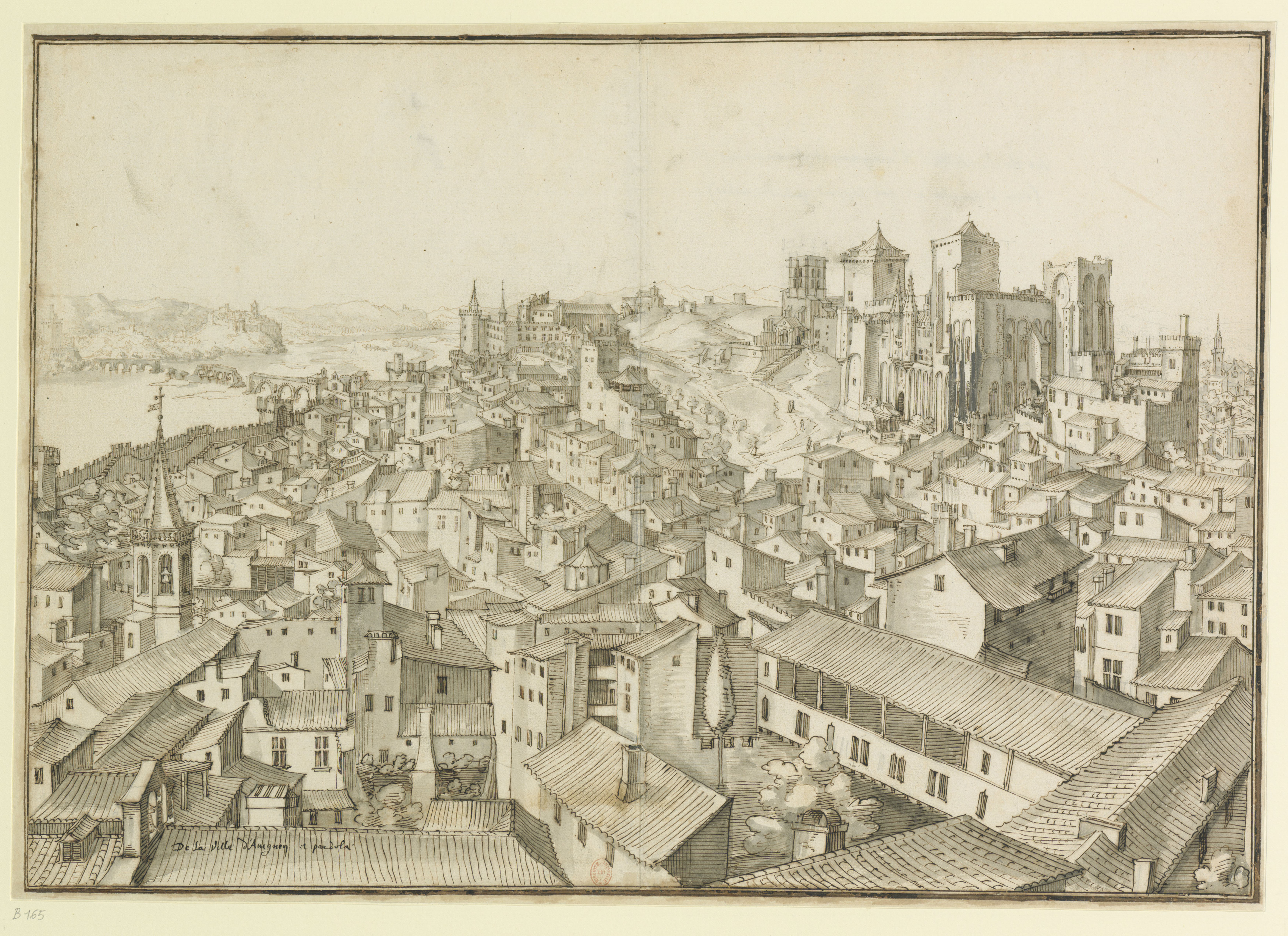 View from the tower of the town hall (Tour du jacquemart, originally part of the Livrée d'Albano) looking north over the rooftops of Avignon. The Palais des Papes is at the top right, the ruined Pont Saint-Bénézet is at the top left.